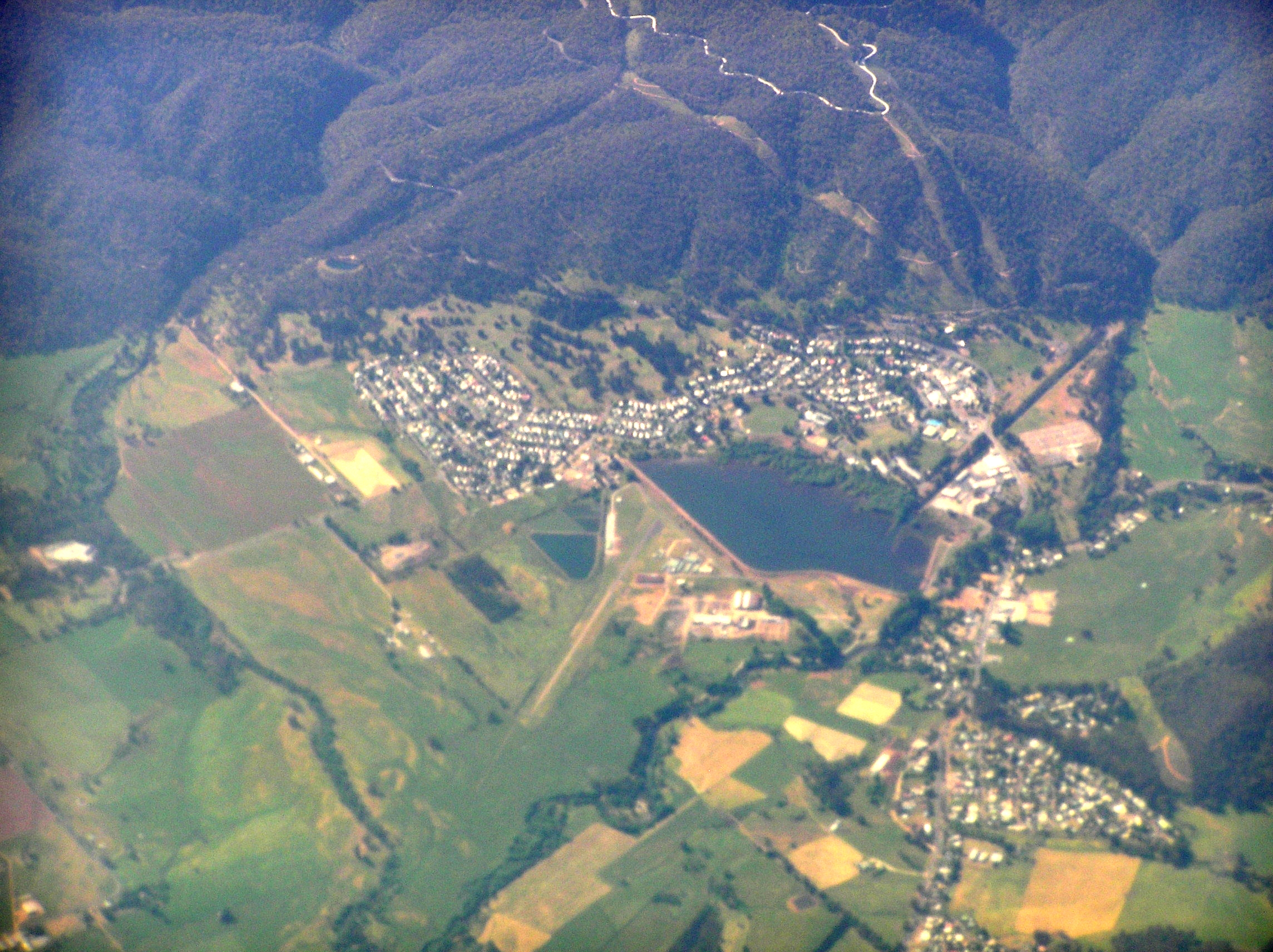 zoomed in view of Mount Beauty and Tawonga South Victoria Australia from north west